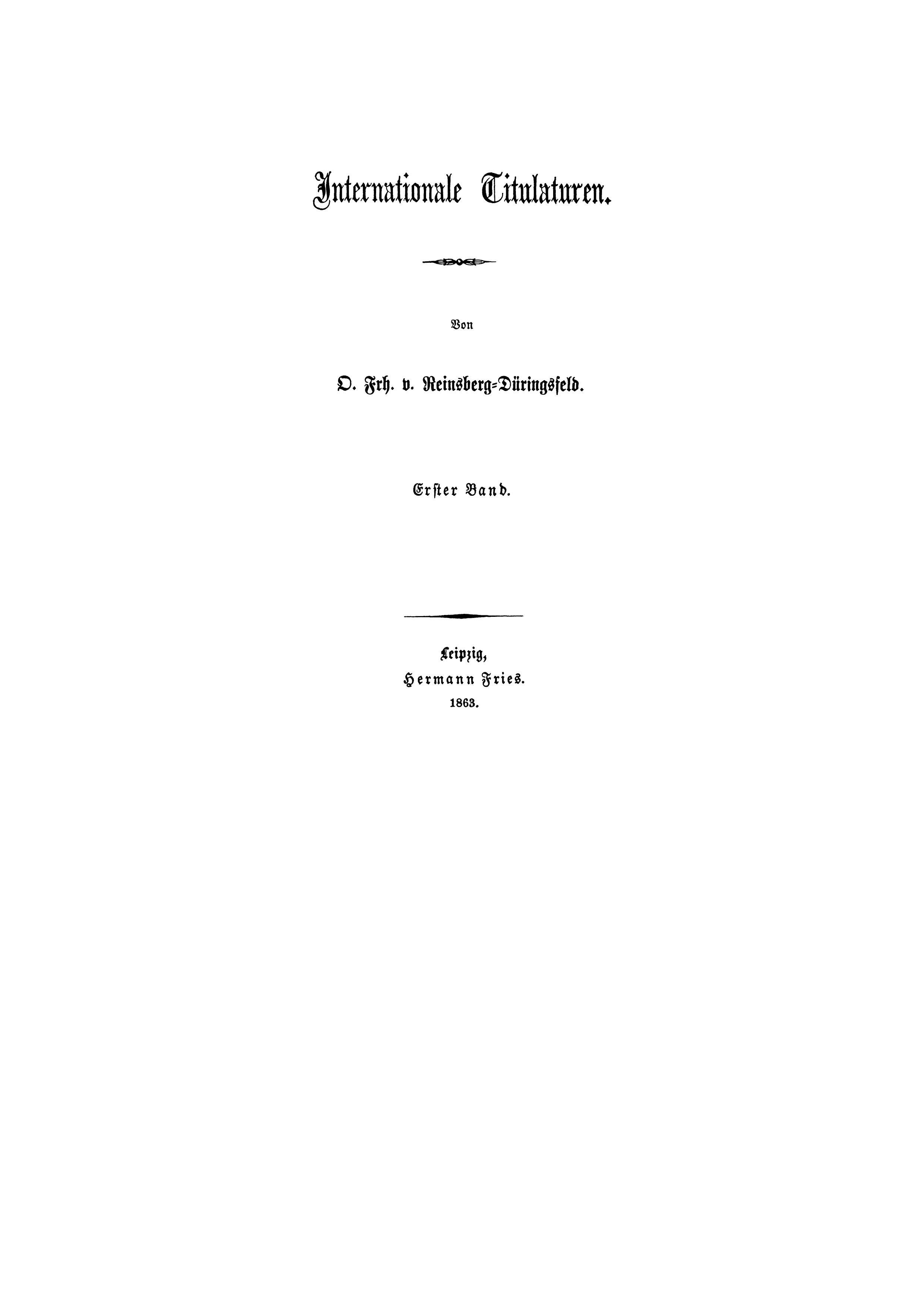 This is a scan of the historical document